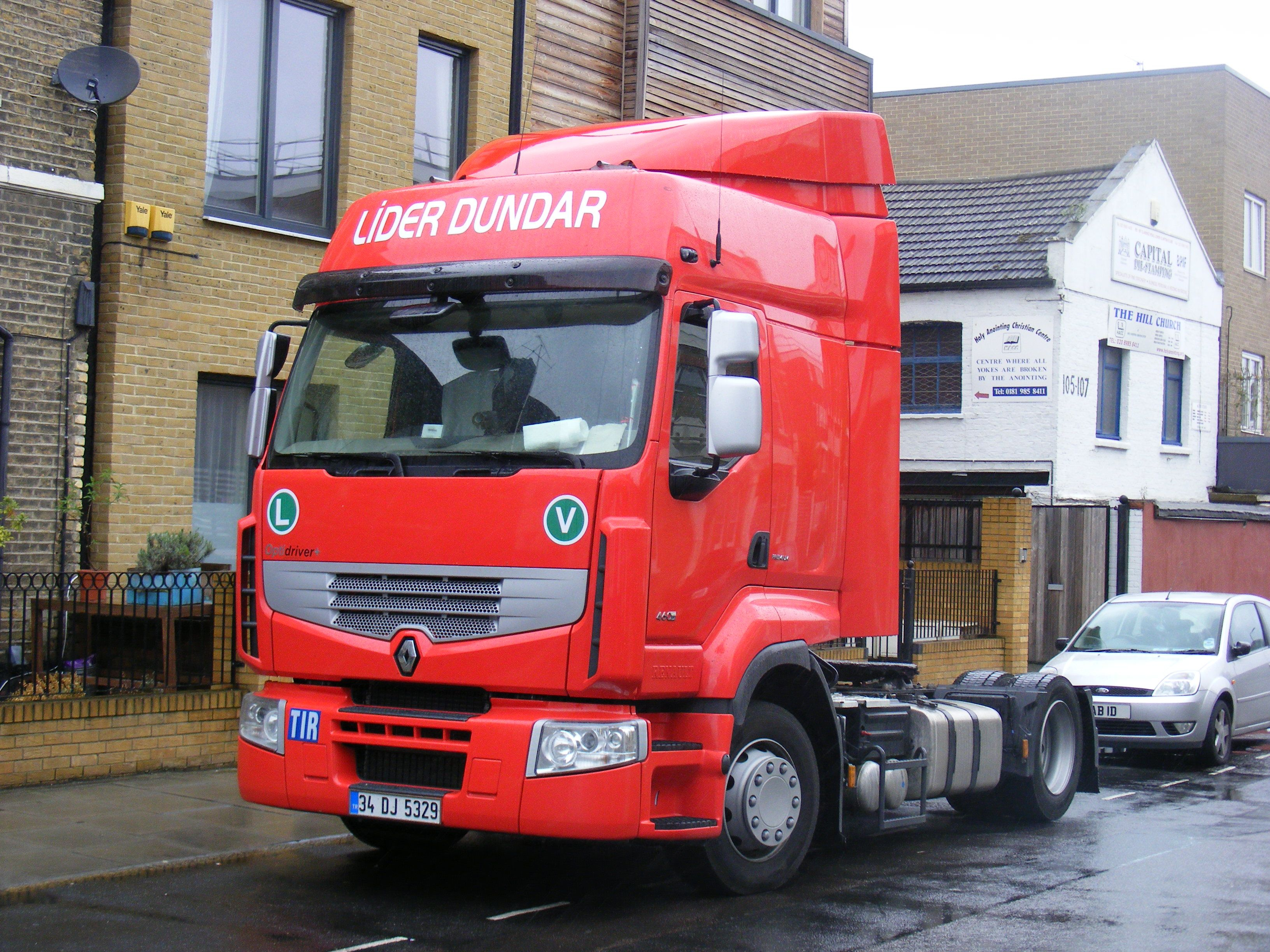 Turkish Renault Optidriver+ prime mover with automated gearbox.. Lider Dundar.